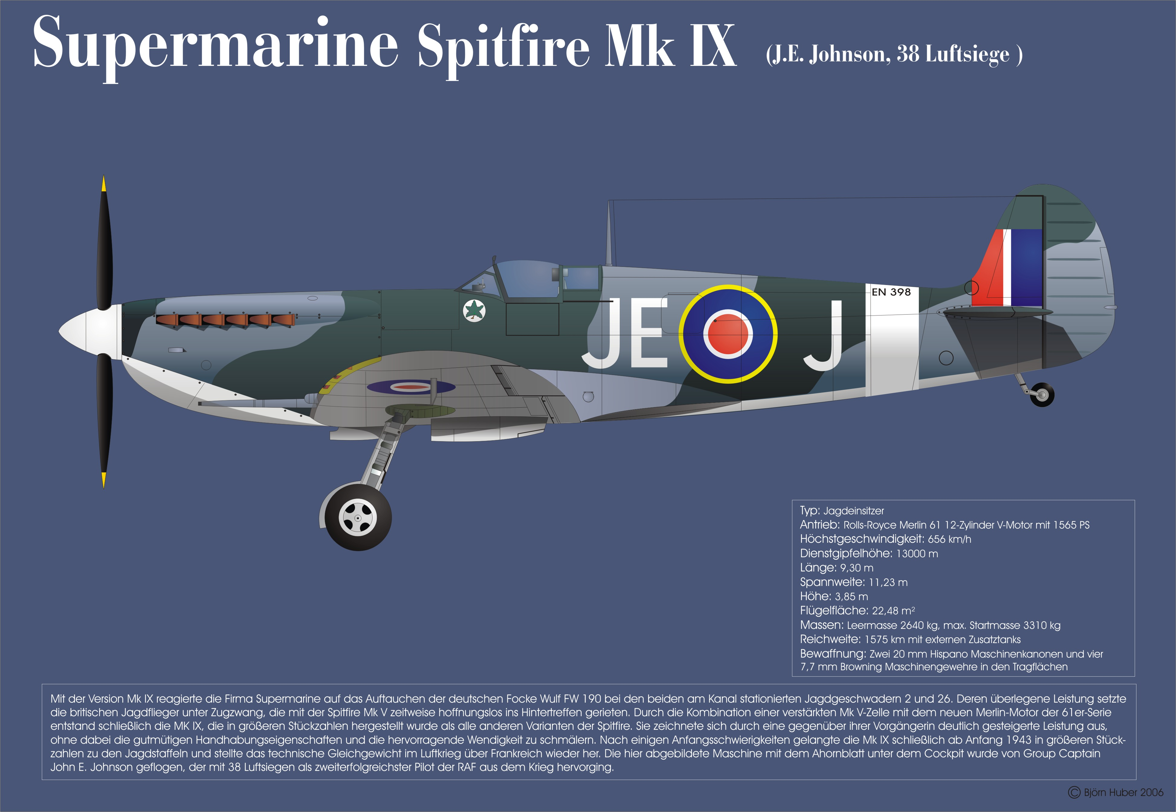 Depiction of a Supermarine Spitfire Mark IX in No. 610 Squadron RAF markings (Squadron code JE), as flown by British fighter ace Johnnie Johnson.